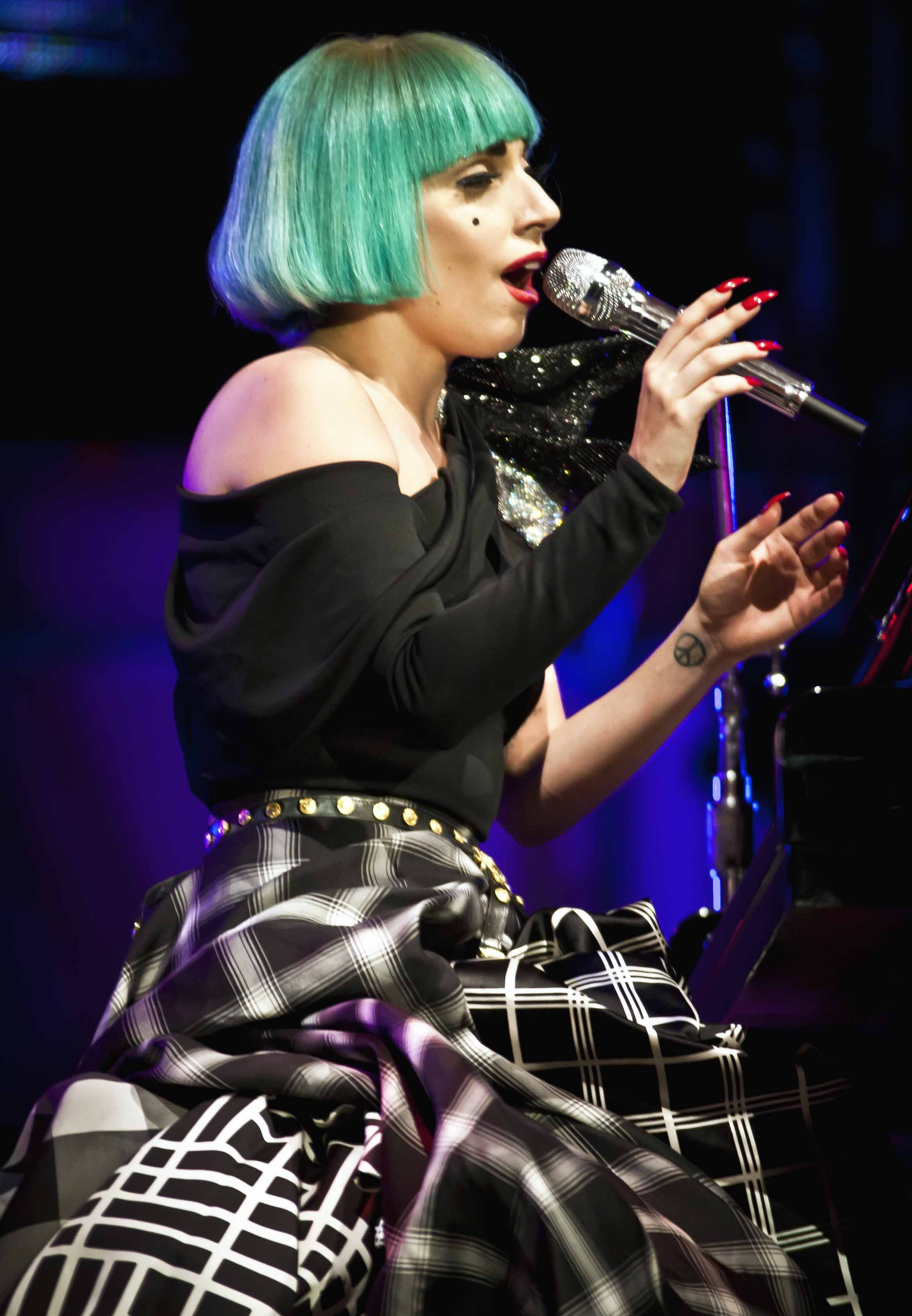 Lady Gaga during the performance aof "Born This Way" at the 2011 EuroPride event in Rome, Italy.